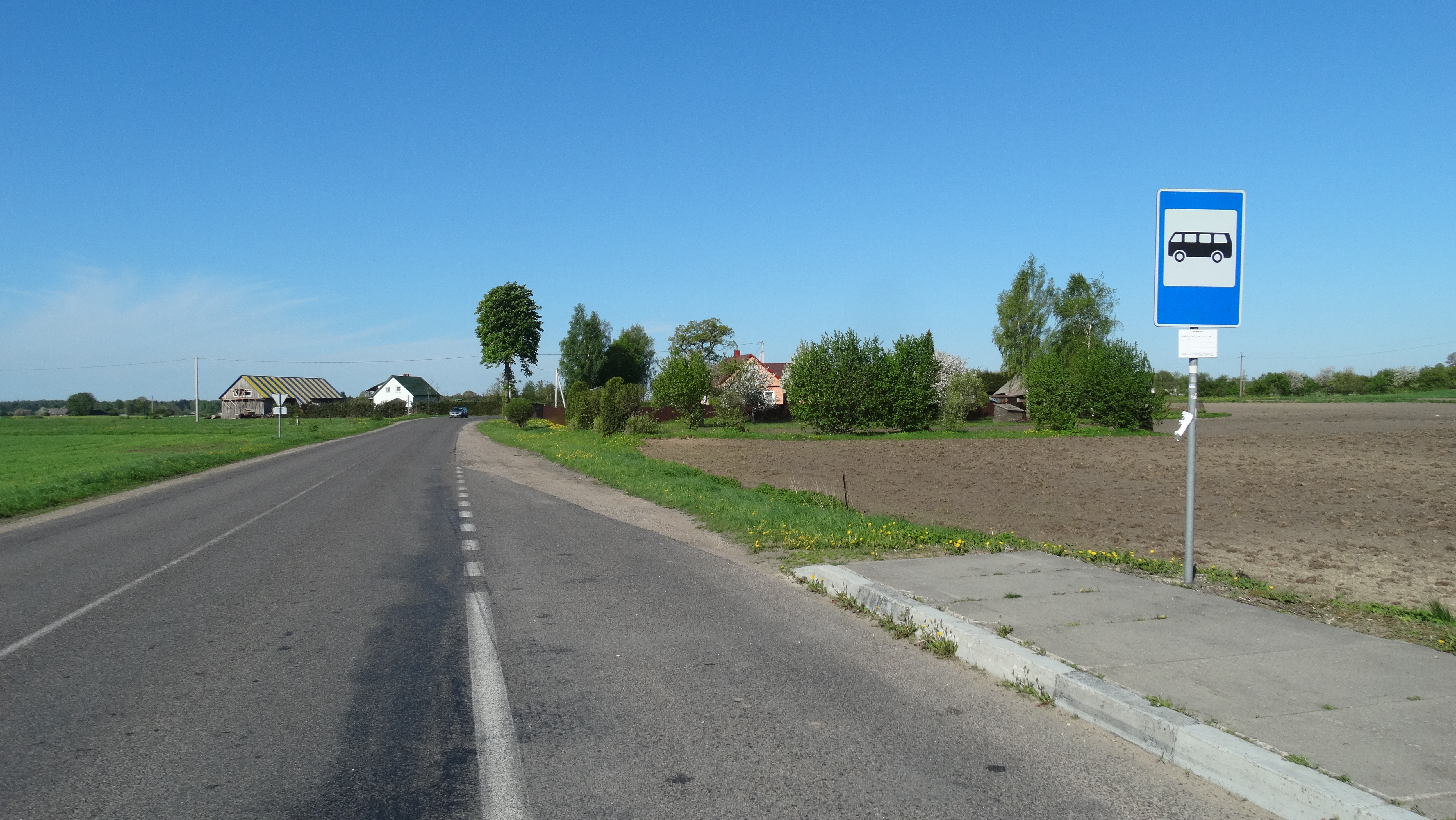 Padainupys, Kaunas district, Lithuania